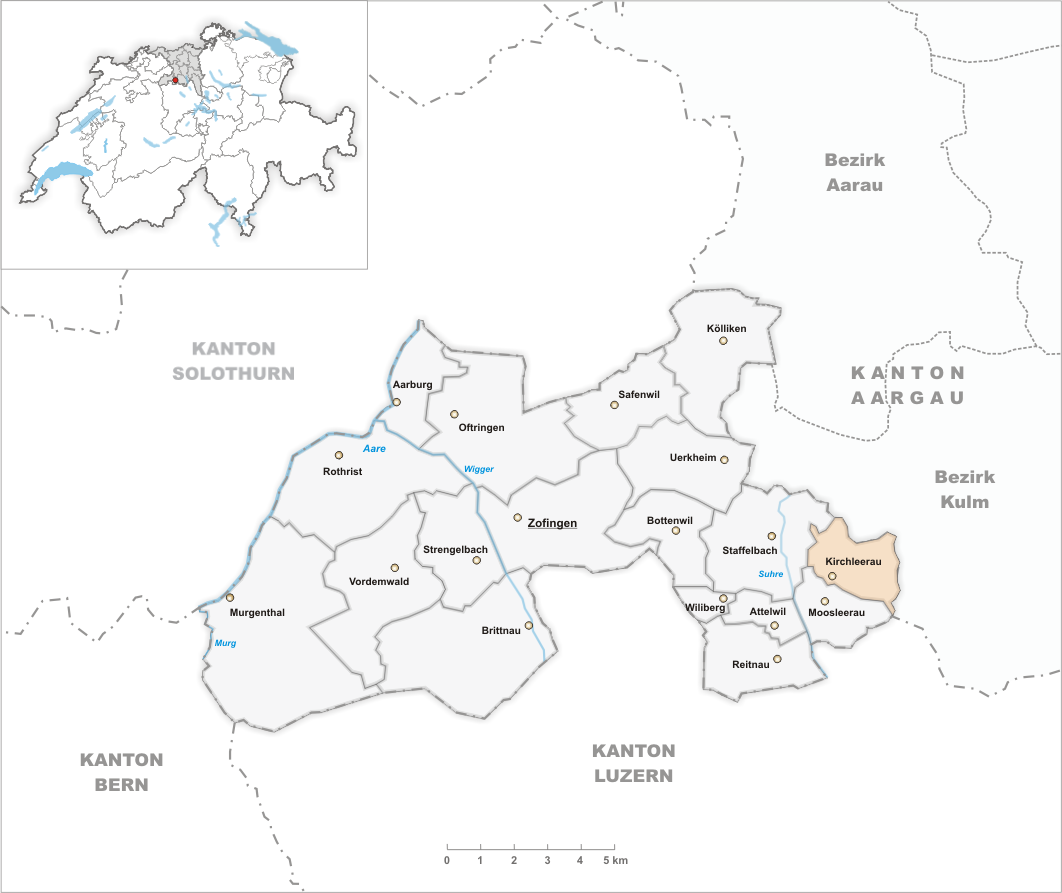 Municipality Kirchleerau